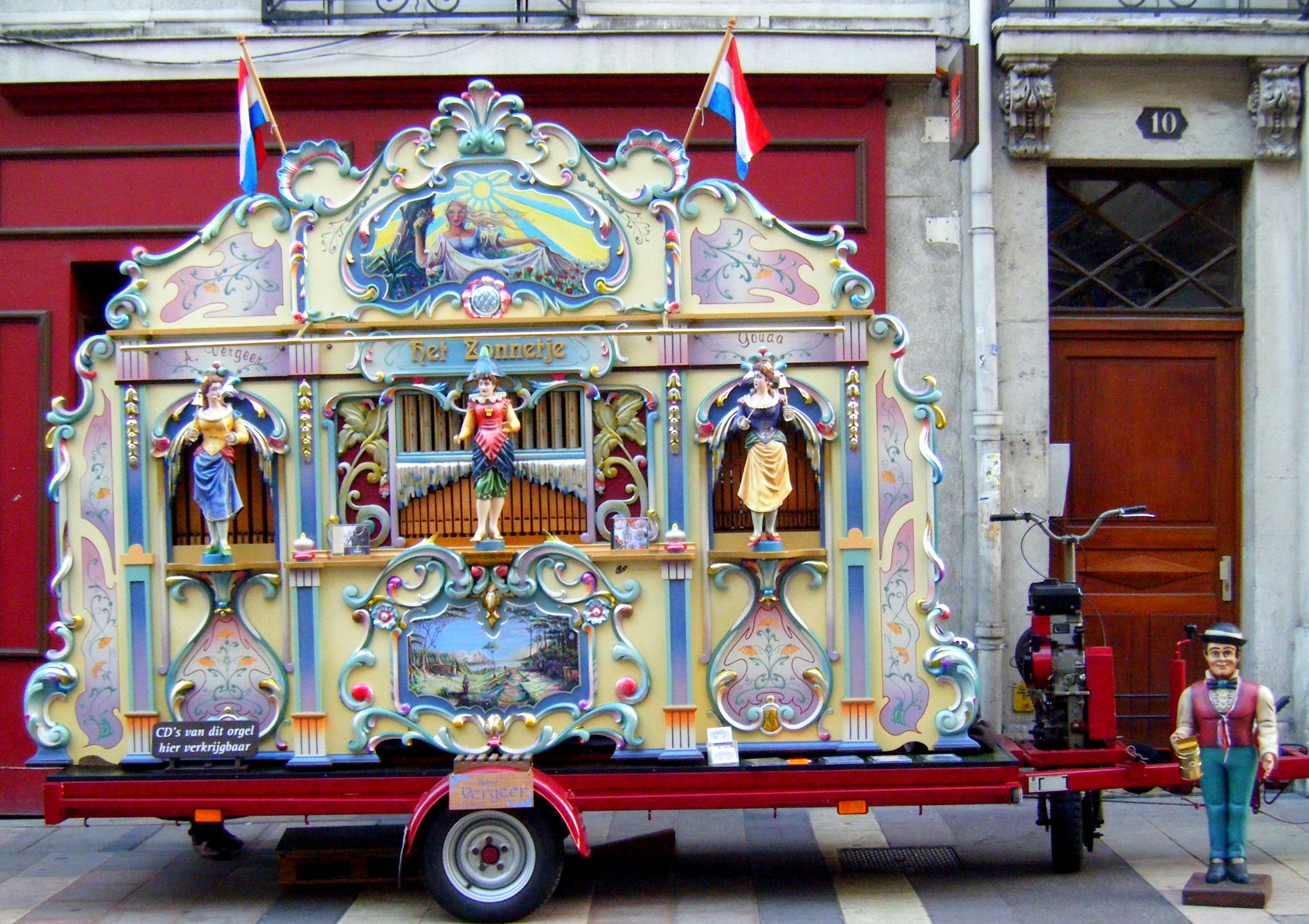 limonaire picture from the International Mechanical Music Festival. Dijon. “Typical Limonaire Frères street organ, with highly decorated Art Nouveau facade” —caption quoted from the English Wikipedia article: Limonaire Frères